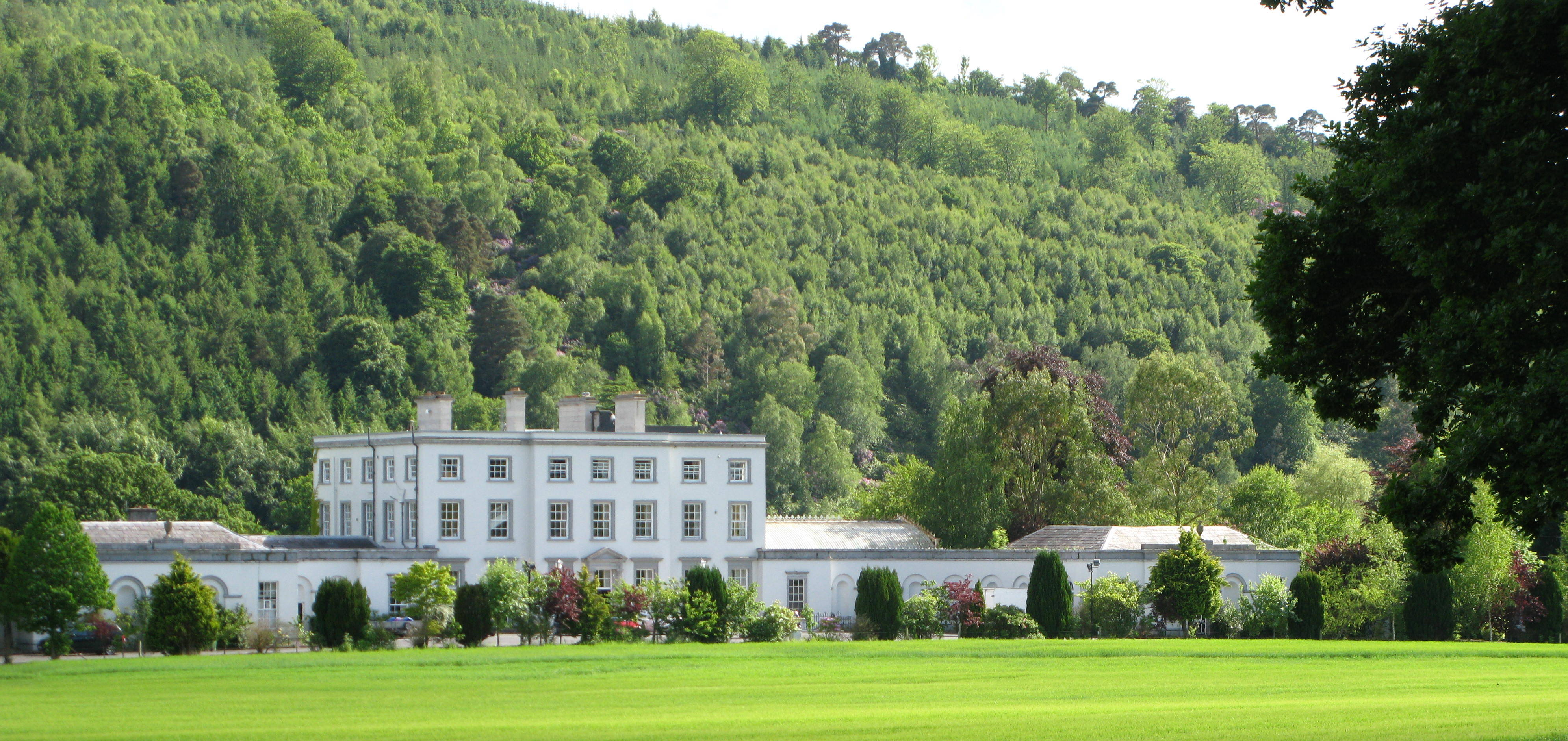 North facing facade of Marlfield House, Clonmel, County Tipperary.